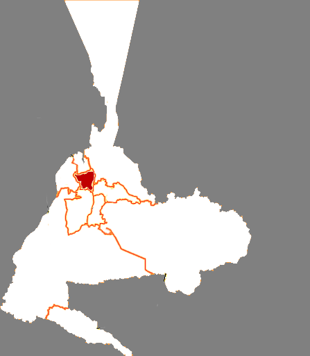 Location of Xinshi District in Urumqi City, China